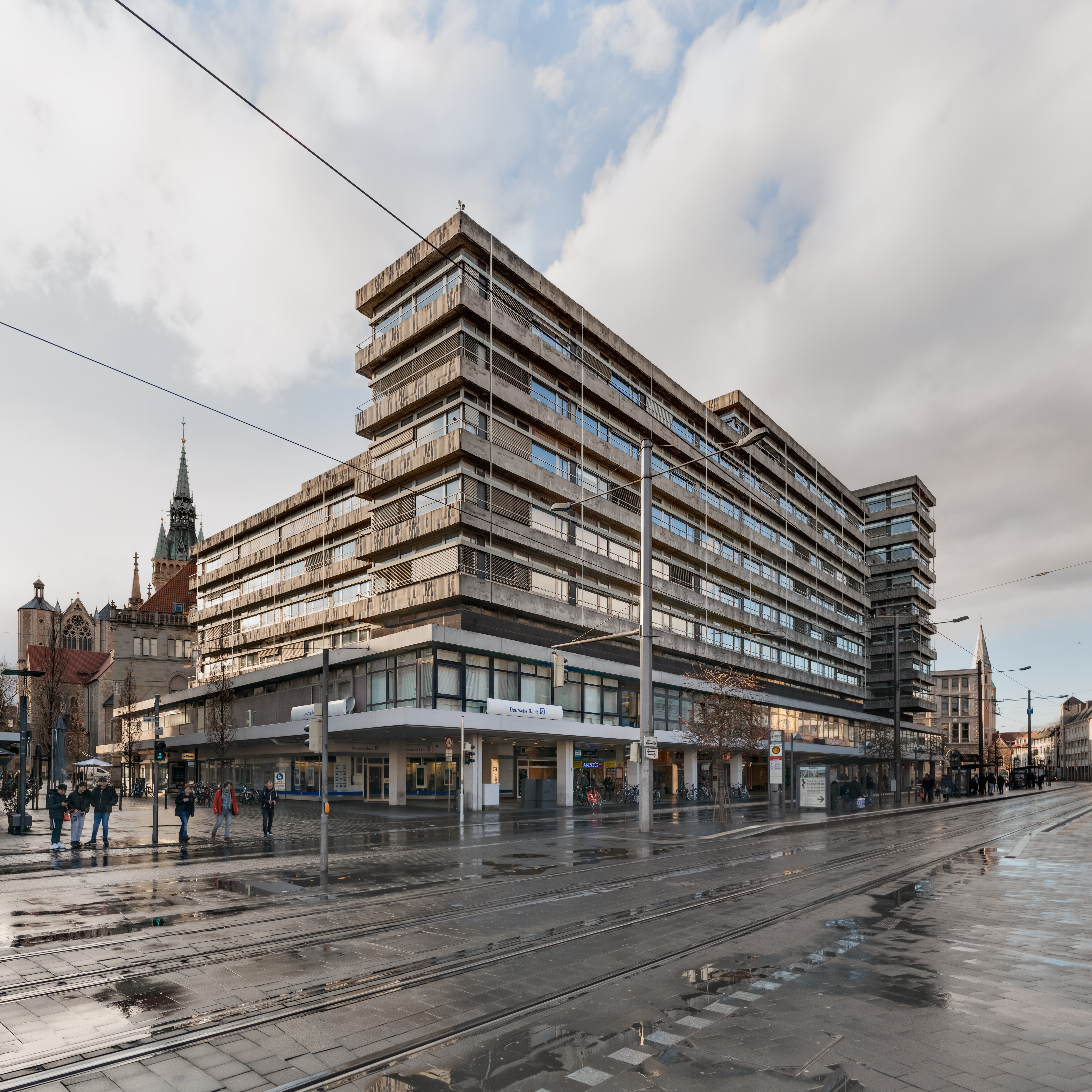 Brunswick, Modernist New townhall in Concrete, Lower Saxony/Germany